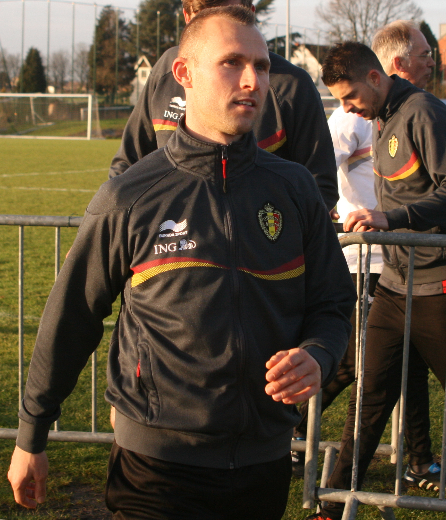 Thomas Buffel during a training session with the belgian Red Devils